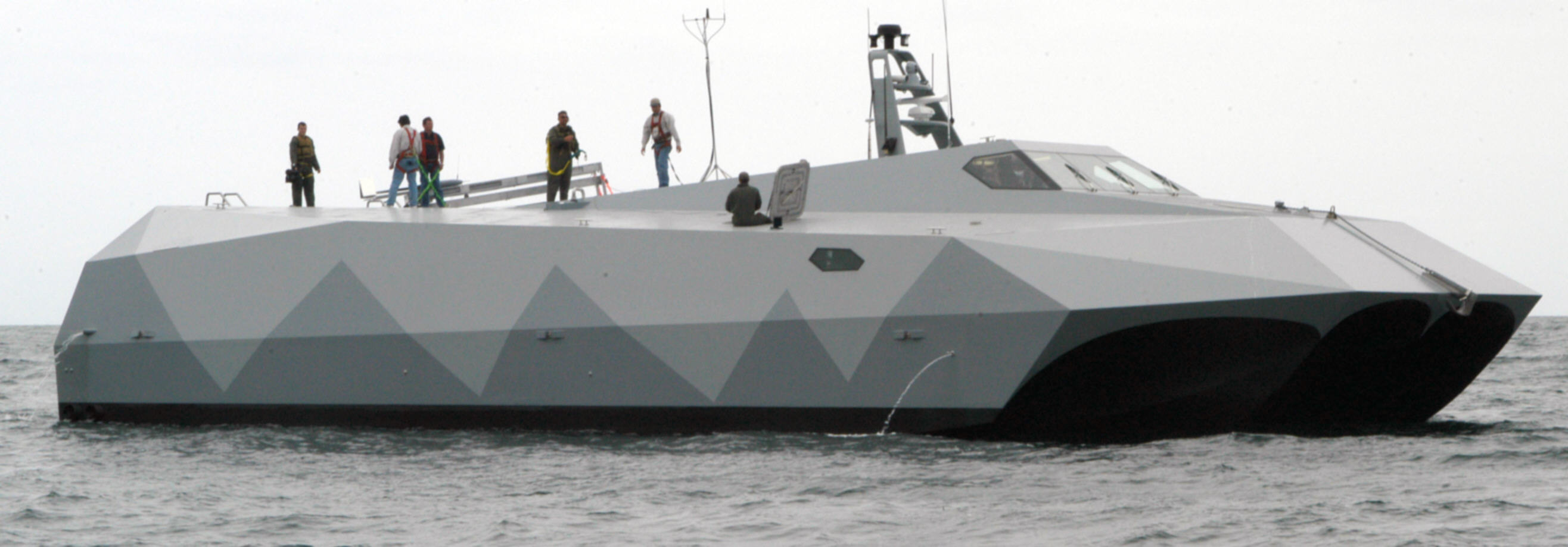 060506-N-4021H-068 San Diego (May 6, 2006) - The crew of experimental boat ship Stiletto readies the ship as it prepares to launch an Unmanned Aerial Vehicle (UAV) during Exercise Howler. Stiletto is being tested for its usefulness in littoral combat warfare and interoperable environments. U.S. Navy photo by Photographer's Mate Airman Damien Horvath (RELEASED)